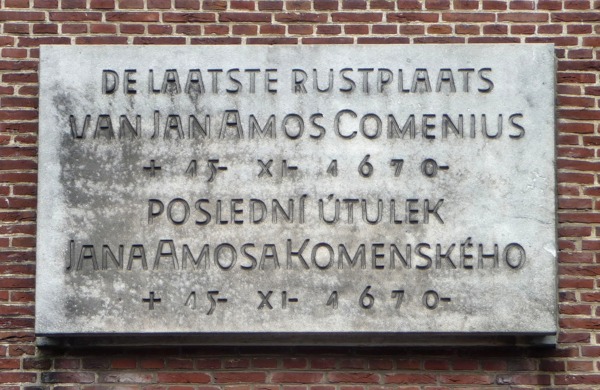 Memorial table on the wall of the Museum of Jan Amos Komenský (Comenius) in Naarden (North Holland, the Netherlands).